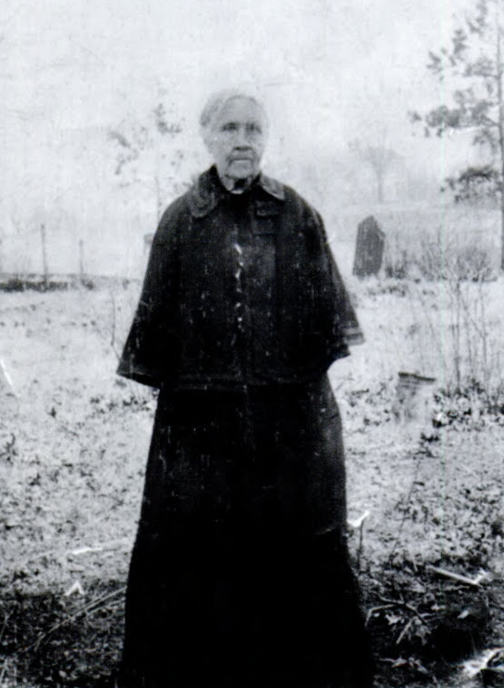 Miss Mary Gay of Decatur, Georgia approximately 1910